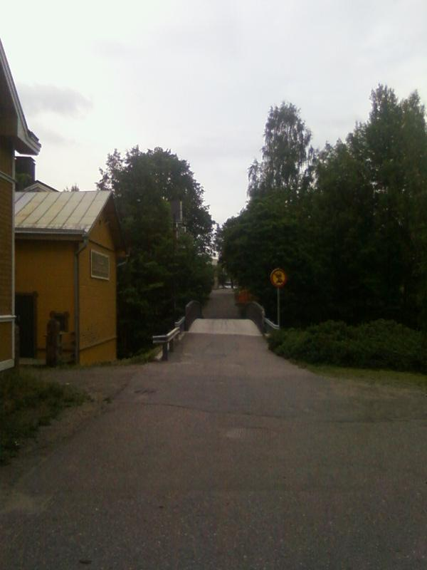 Saunasilta (Sauna Bridge) in Forssa, Finland.